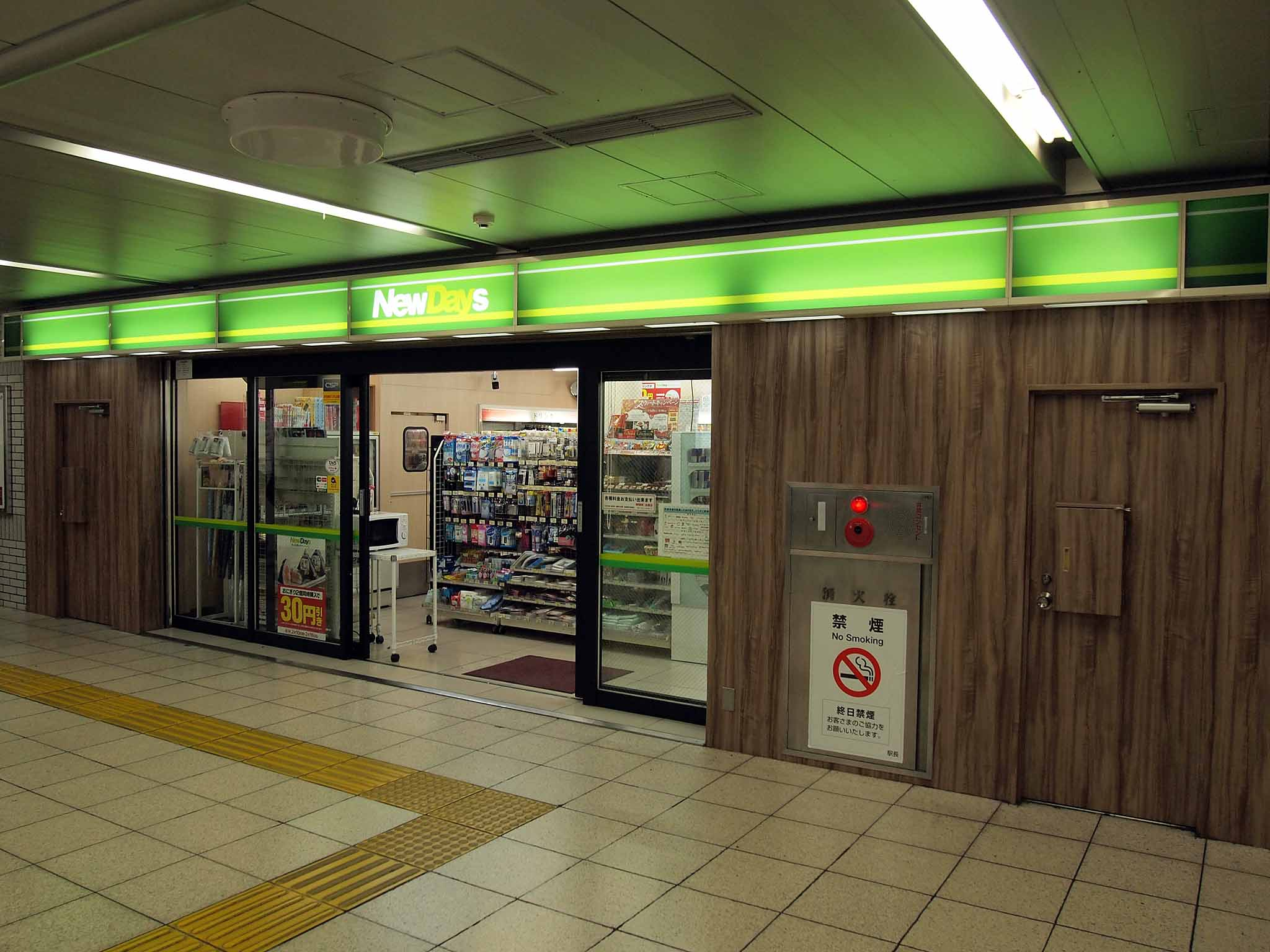 NewDays Ikebukuro Kitaguchi (North Entrance) Store, reformed 2015.